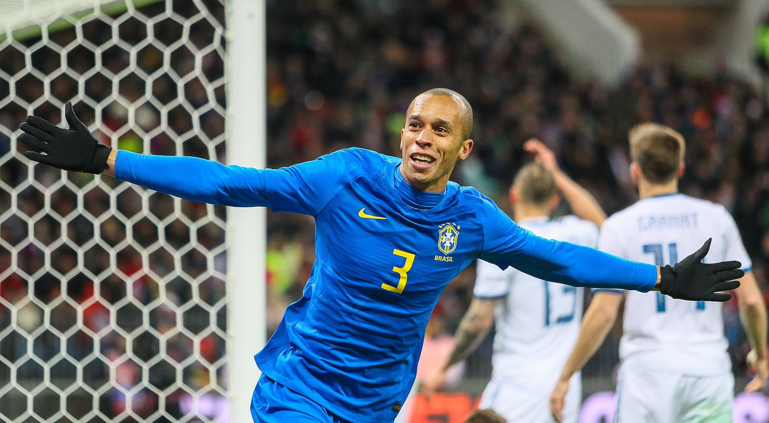 João Miranda